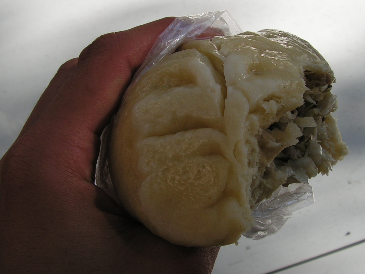 Hot pyanse